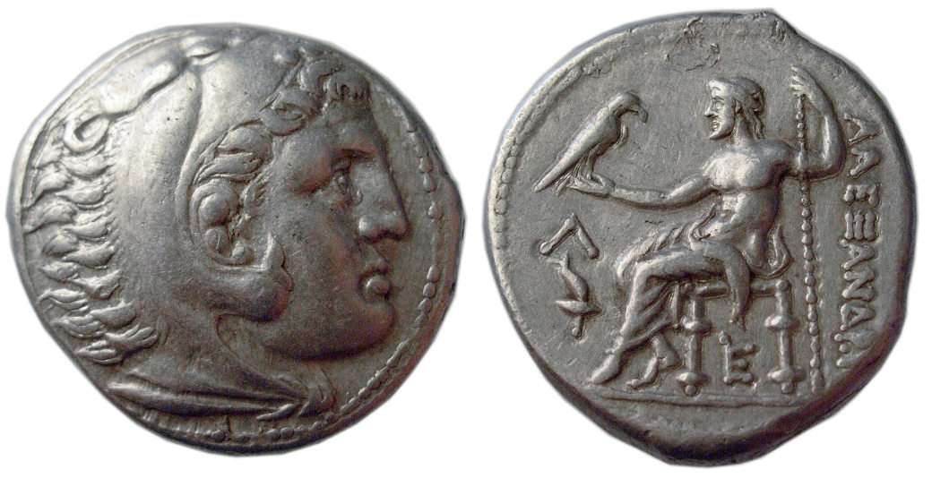 Posthumously issued silver tetradrachm of Alexander III "the Great" of Macedon, c. 315-294 BC, Reference: Price 486.